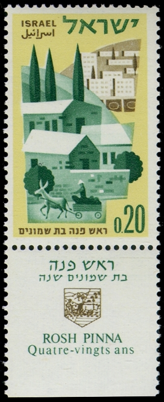 Israeli postage stamp commemorating 80th anniversary of the Rosh Pina moshava